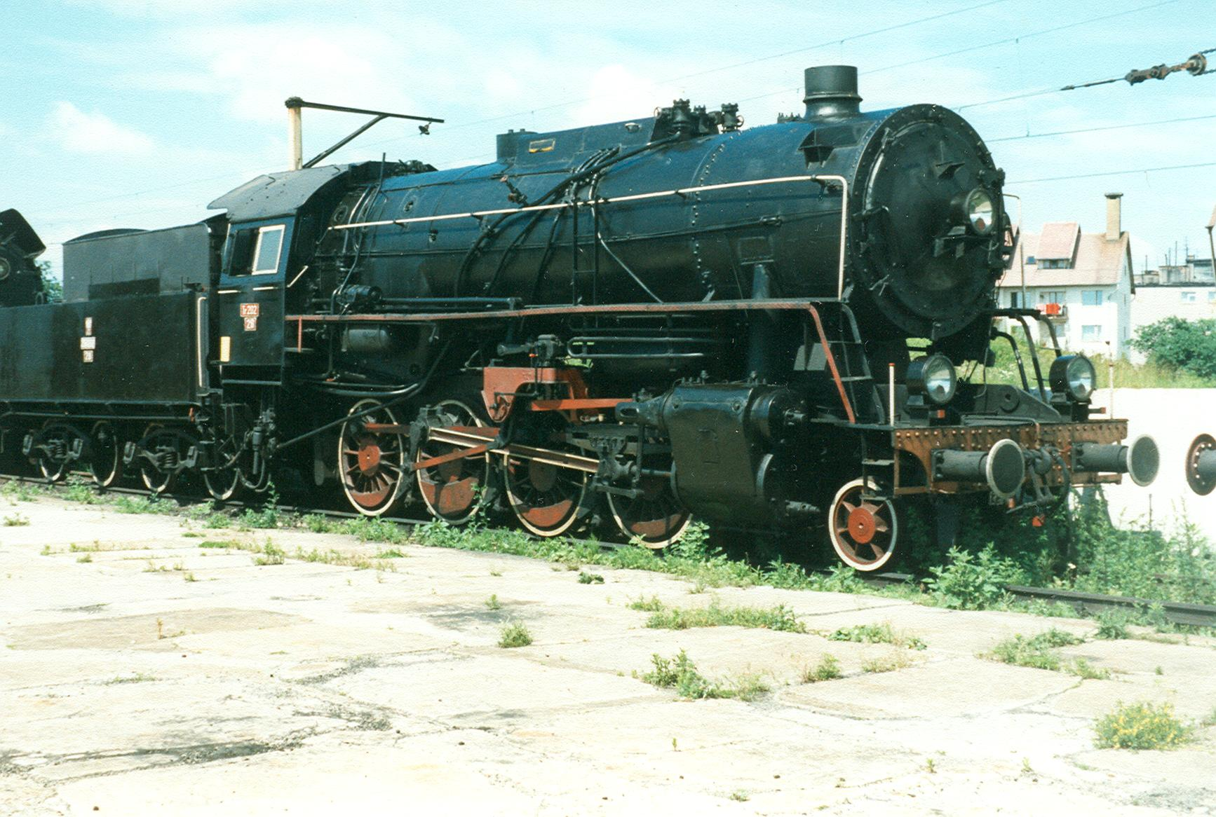 Tr 202 of the PKP (Polish State Railways); one of the Liberation Class locomotives built by Vulcan Foundry.